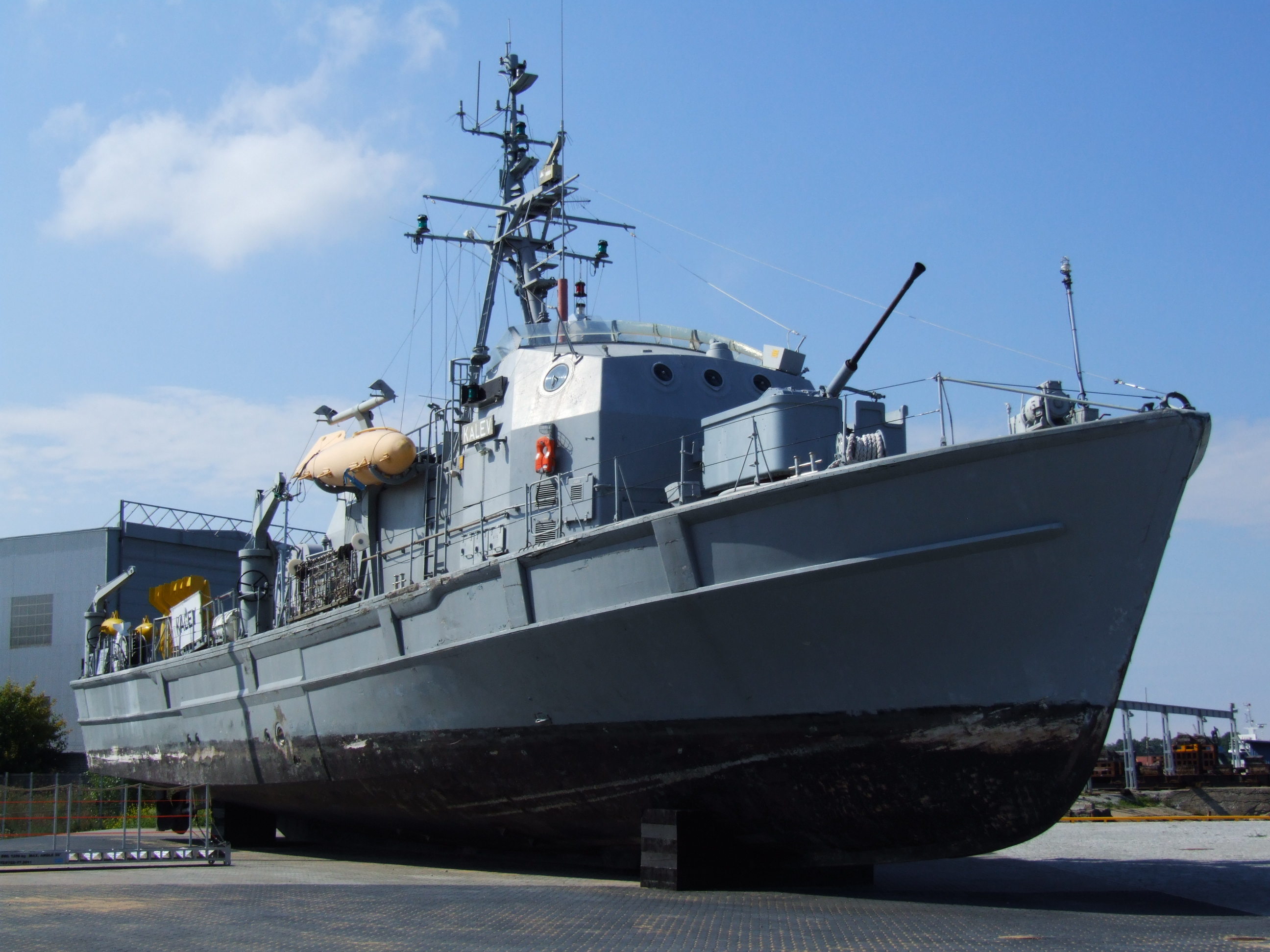 Minesweeper EML Kalev (M414) in Tallinn